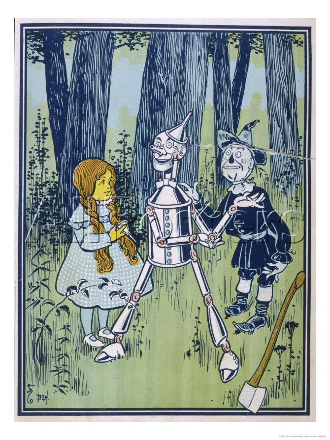 An illustration by W. W. Denslow from The Wonderful Wizard of Oz, also known as The Wizard of Oz, a 1900 children's novel by L. Frank Baum.